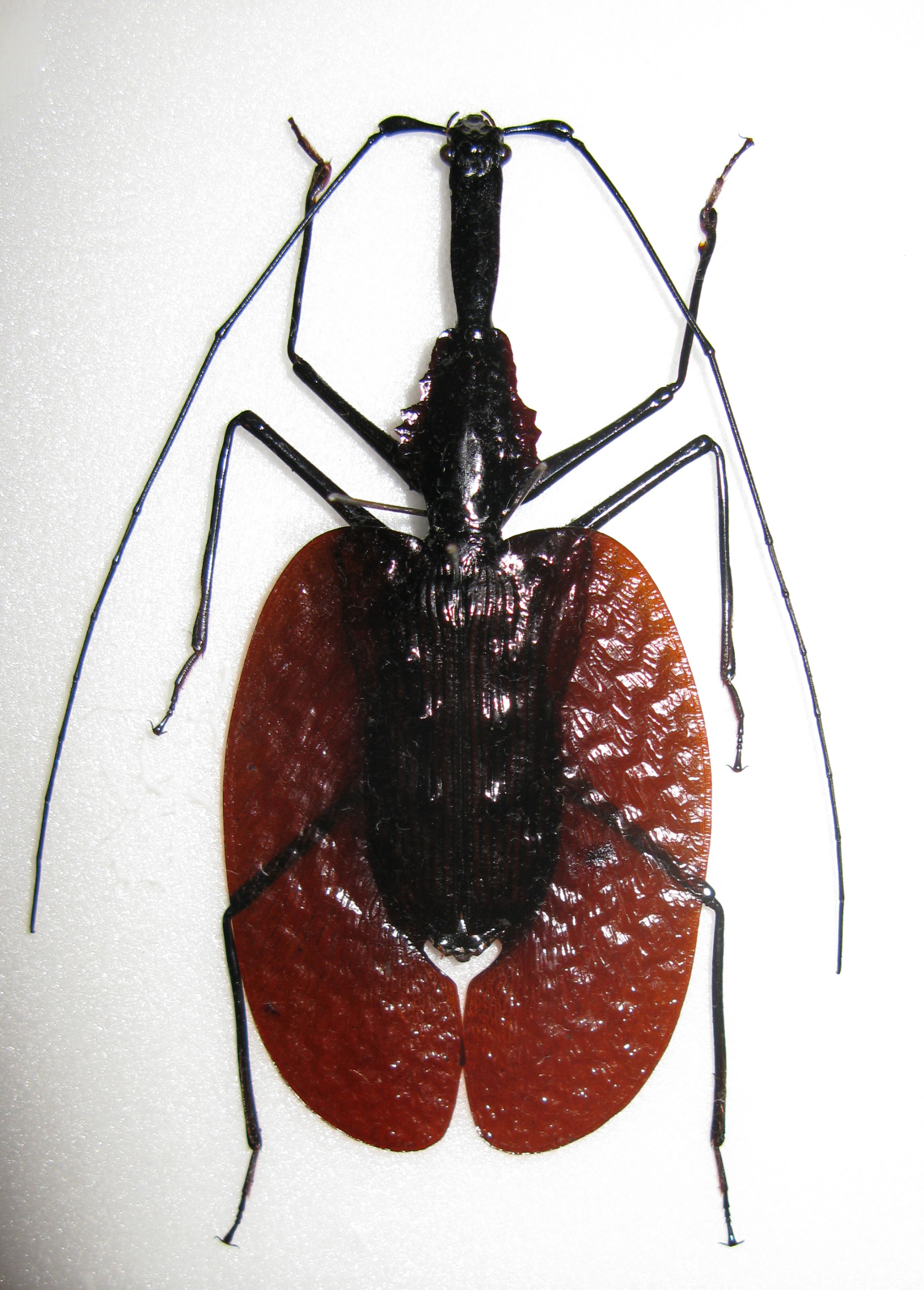 Mormolyce phyllodes